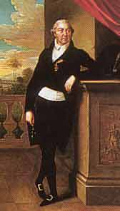 Portrait of Karl Alexander, 5th Prince of Thurn and Taxis (1770-1827)